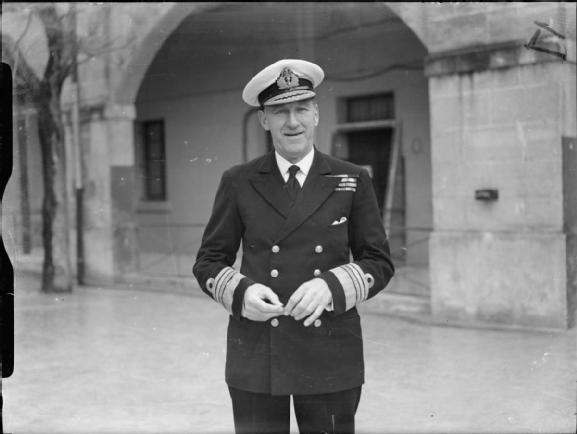 A half length portrait shot of Admiral Sir Wilbraham Ford, KCB, KBE before he left Malta to become Commander in Chief, Rosyth.